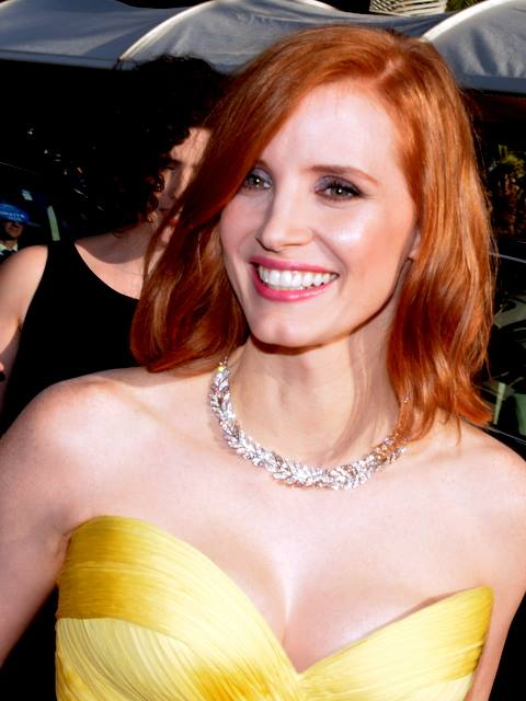 Jessica Chastain at the Cannes Film Festival